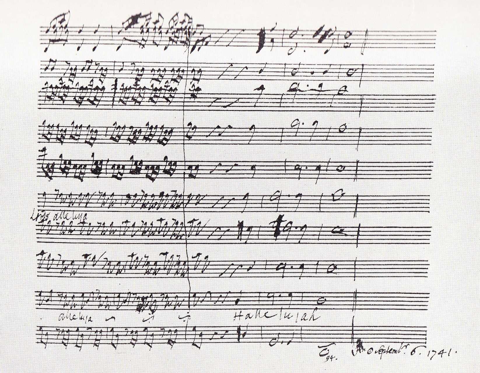 The final bars of the "Hallelujah" chorus from Messiah by Handel, from the composer's autograph score: Fascimiles of this was already reproduced with permission and sold before 1903.[1]